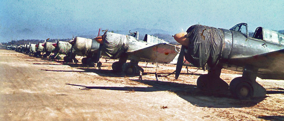 I think these planes that I saw at Kimpo (the Seoul airport) in the fall of 1945 are Japanese. (Mitsubishi Ki.51 Type 99 attack planes that carried the Allied code name "Sonia" per comment)